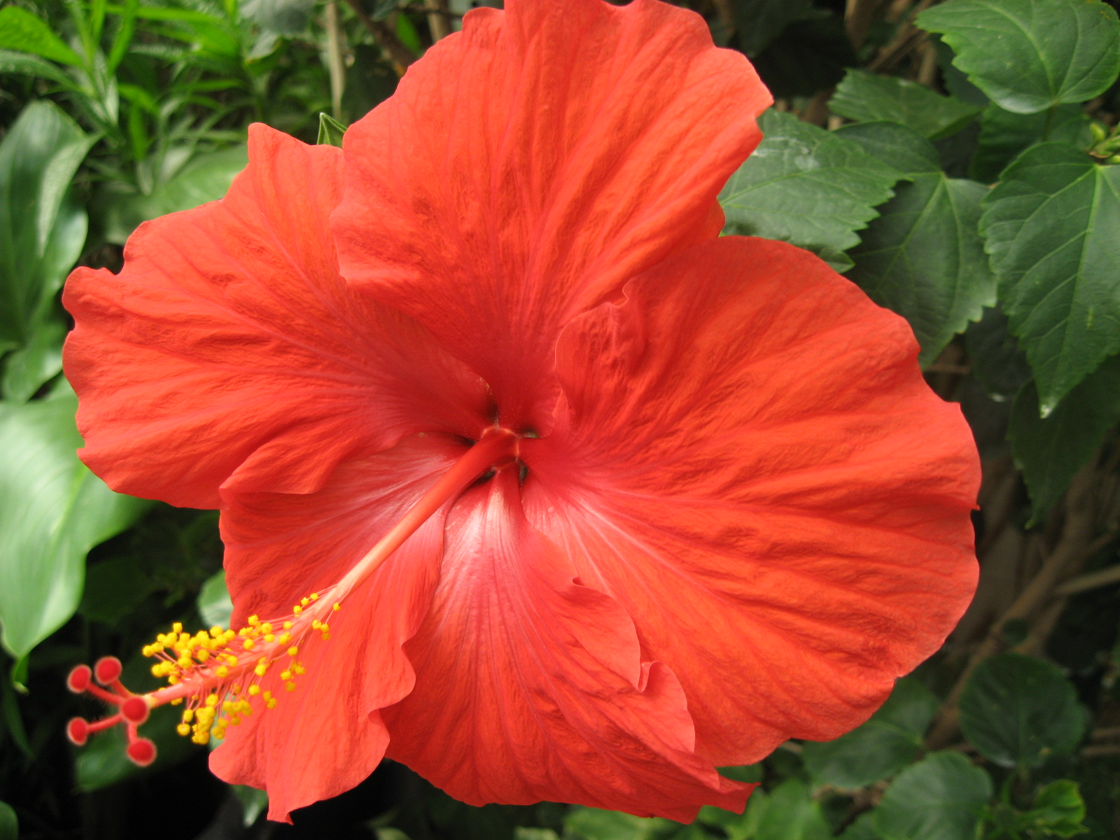 Hibiscus Rosa-sinesis Self taken